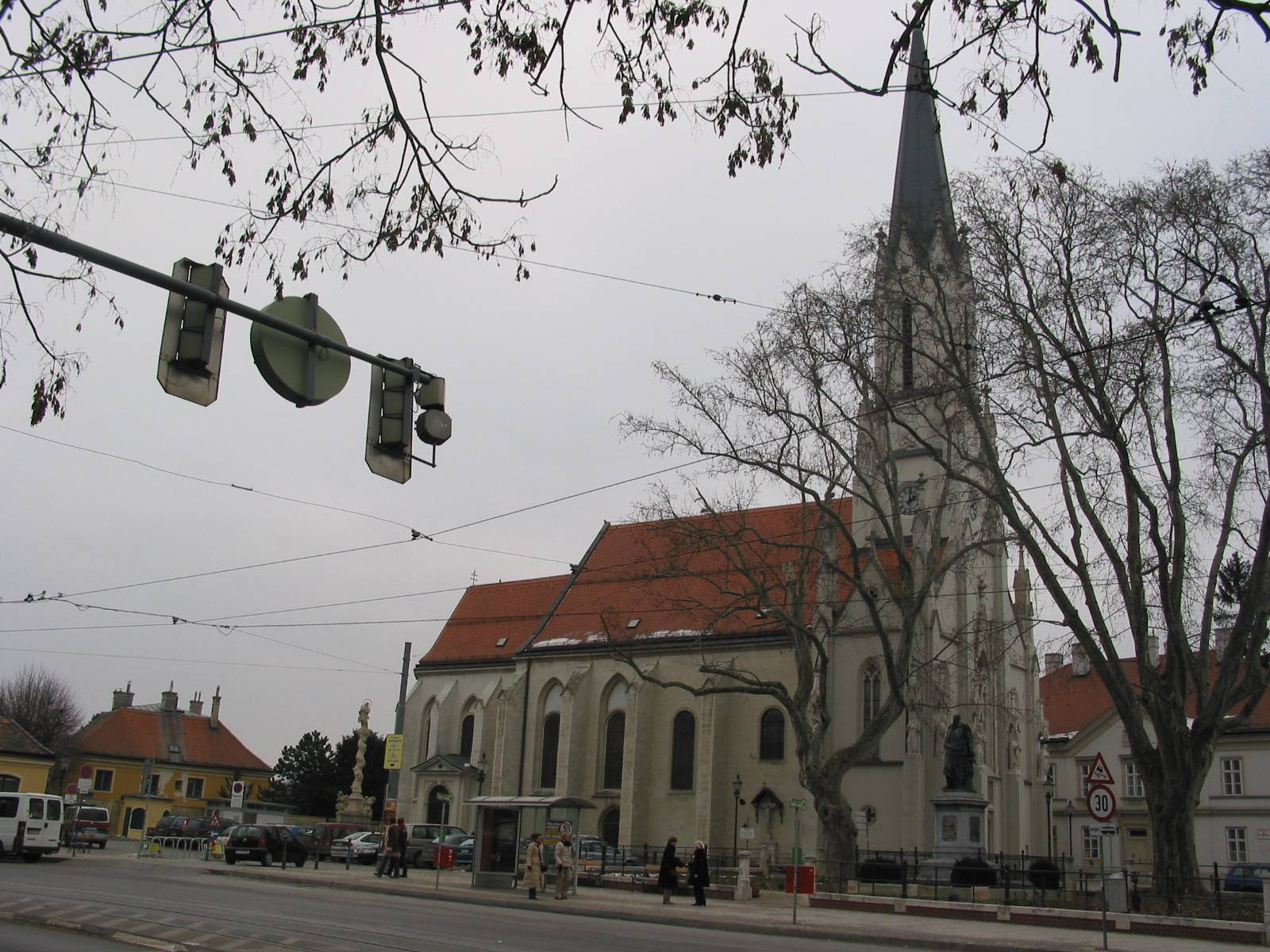 Church of Hietzing